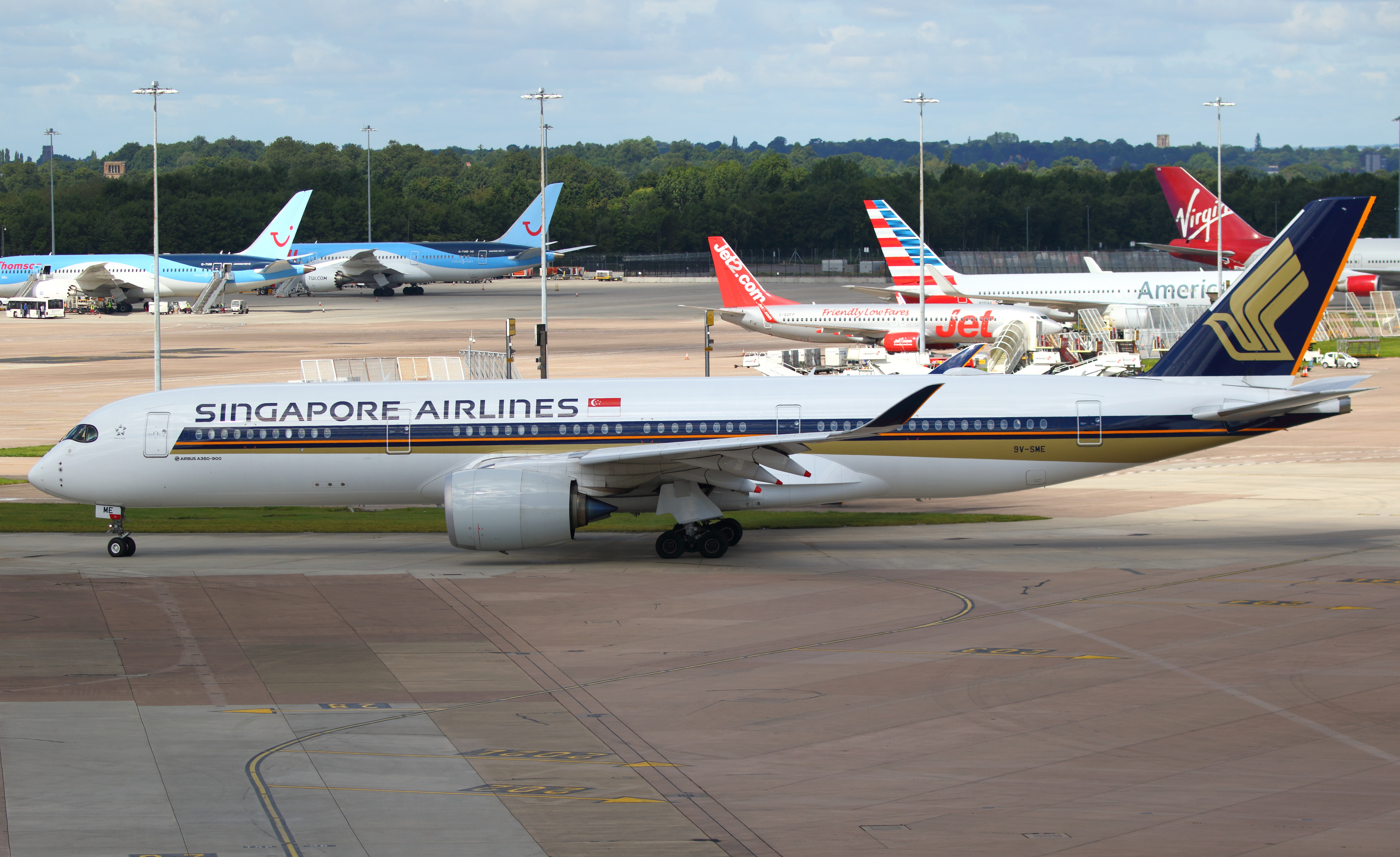 9V-SME Singapore Airlines A350-900